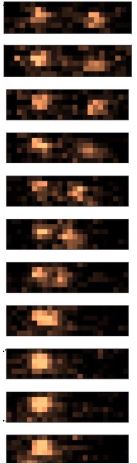 A sequence of two rubidium atoms initially in separate optical tweezers being brought together so they can interact. Photograph taken by Pimonpan Sompet, PhD student in Mikkel Andersen's lab, Department of Physics, University of Otago